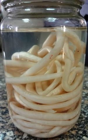 Ascaris lumbricoides in a jar